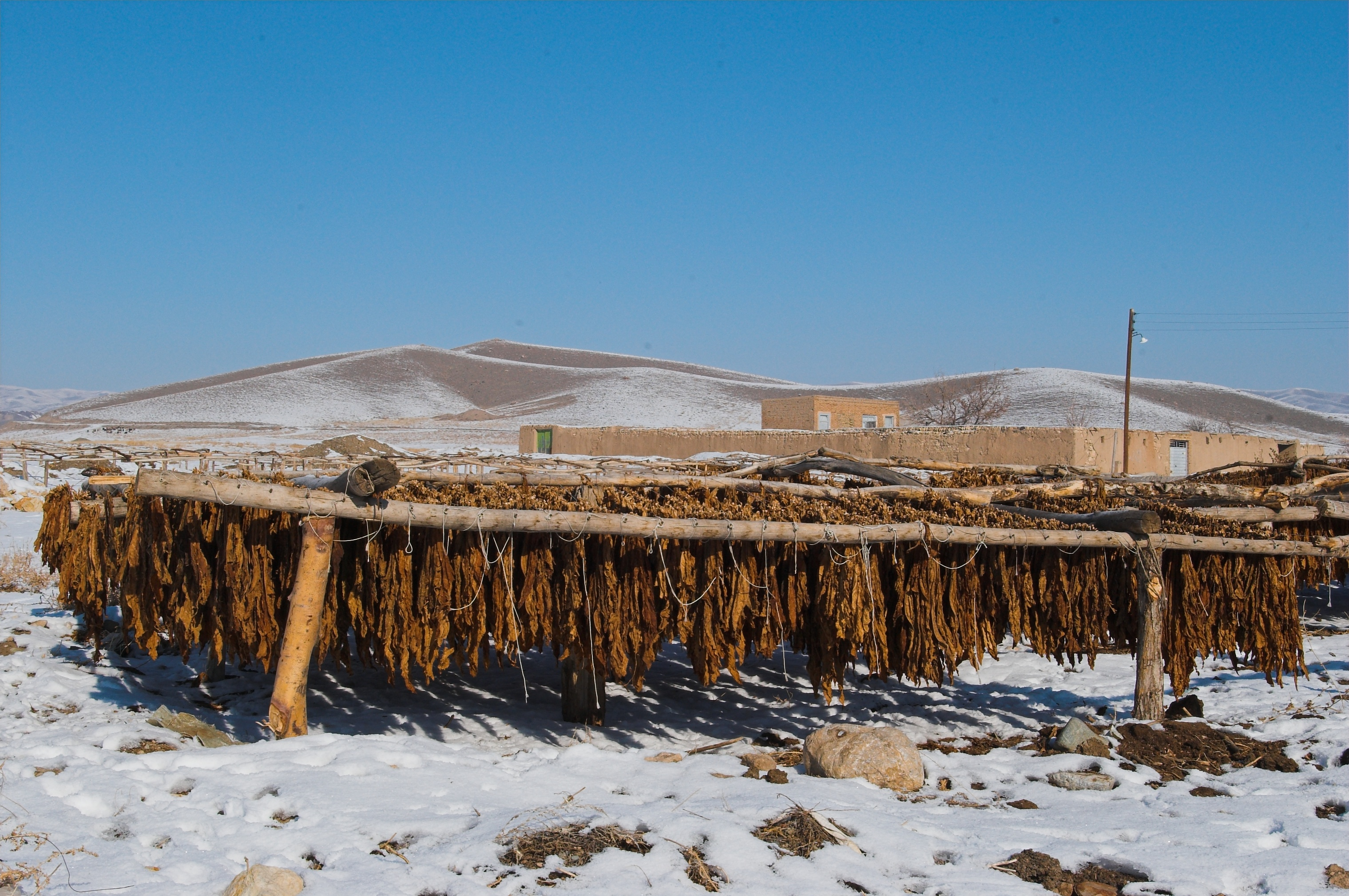 Tobacco drying near Bastam, north-western Iran.